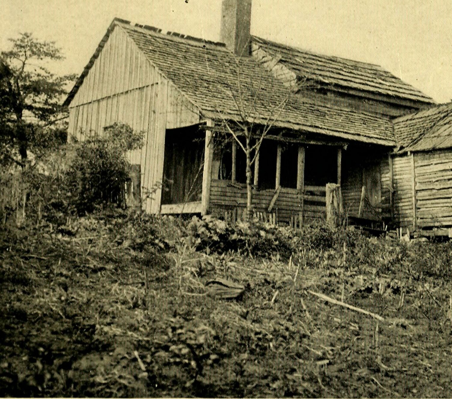 Title: The boyhood of Abraham Lincoln Year: 1921 (1920s) Authors: Gore, J. Rogers (John Rogers), b. 1874 Gollaher, Austin, 1806-1898 Subjects: Lincoln, Abraham, 1809-1865 Publisher: Indianapolis : Bobbs-Merrill Text Appearing Before Image: ' Text Appearing After Image: S ^^ EOBINSON CRUSOE 183 along in the world; well, I believe he toldthe truth. I am going to try to do what Ithink mother wants me to do. Shes thebest friend I have and shes good to me,and if she should leave me I reckon I dnever be much account, because I wouldalways be thinking about her, andwouldnt have time to study my lessons.**I know one thing, said Austin, histear-stained eyes snapping, *^a boysmothers better to him than anybody else;shes a heap better to him than his father,and when she whips him, she whips himeasy, and when he cries she stops. Some-times when a boy cries, and tells his fa-ther hes hurting, he wont stop. You re-member the time father whipped me fortalking back to old man Evans, dont you?Well, there were marks around my legsfor two or three days, and when mothersaw the marks she called father and toldhim that he mustnt whip me that way anymore. And she told him, too, that old manEvans was a scamp, and that I oughtnt 184 THE BOYHOOD OF LINCOLN to have been whipp